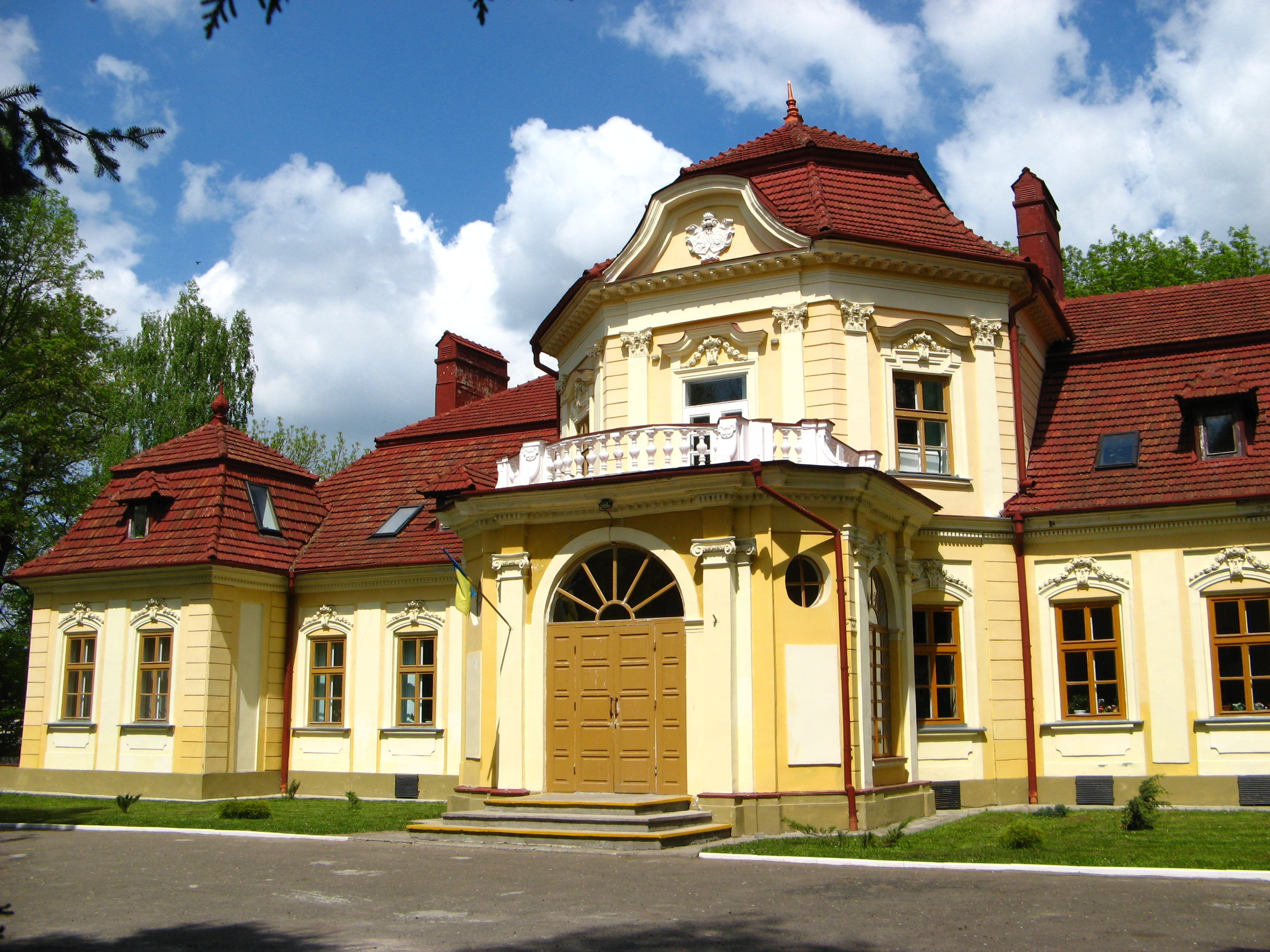 Palace Brunyckyh (Wel. Lubin, Ukraine)